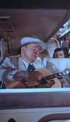 Tex Ritter in the movie "Freedom". In this movie, he had only a little guestrole, singing a song and playing his guitar.